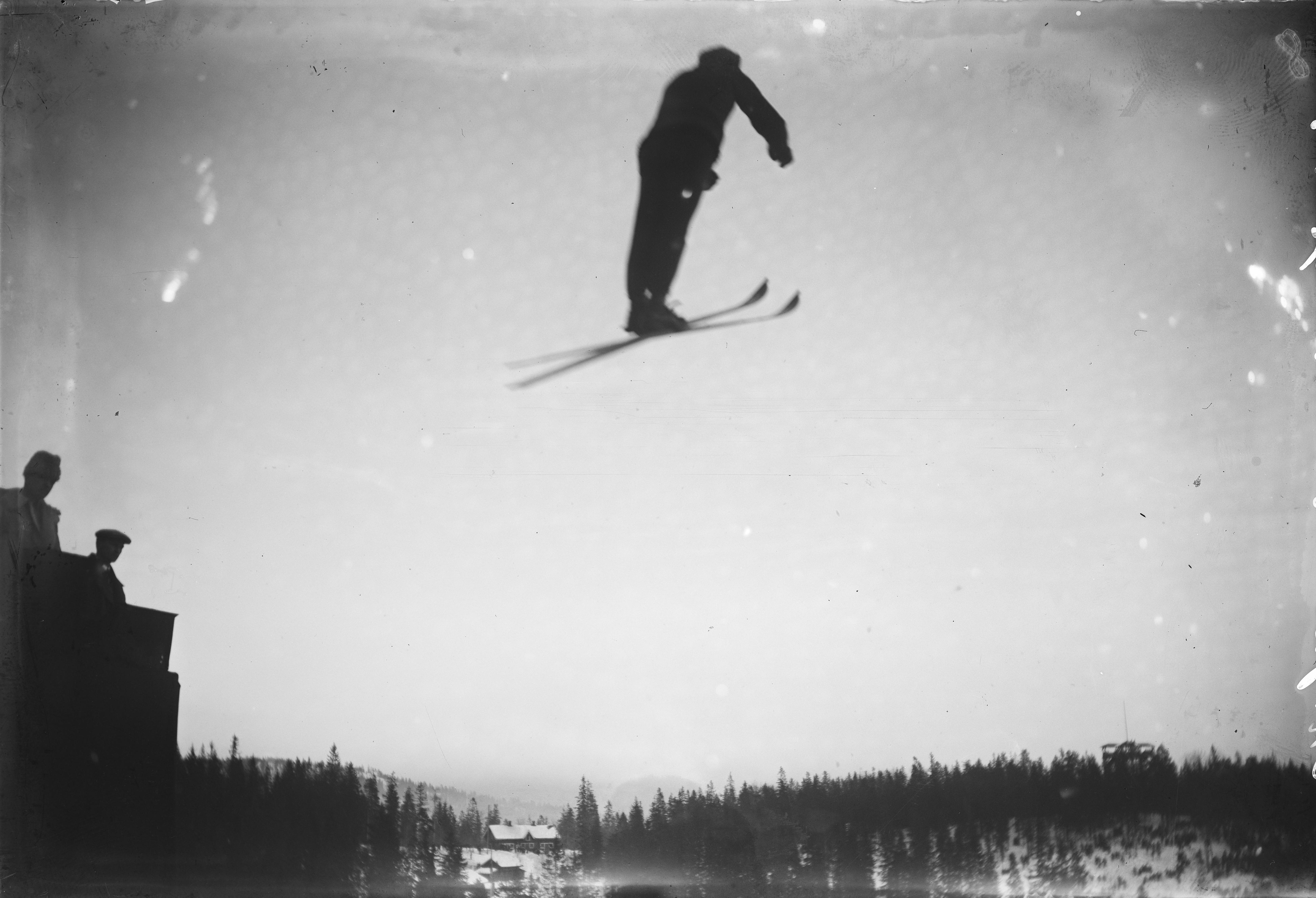 Comment: Possibly Menotti Jakobsson